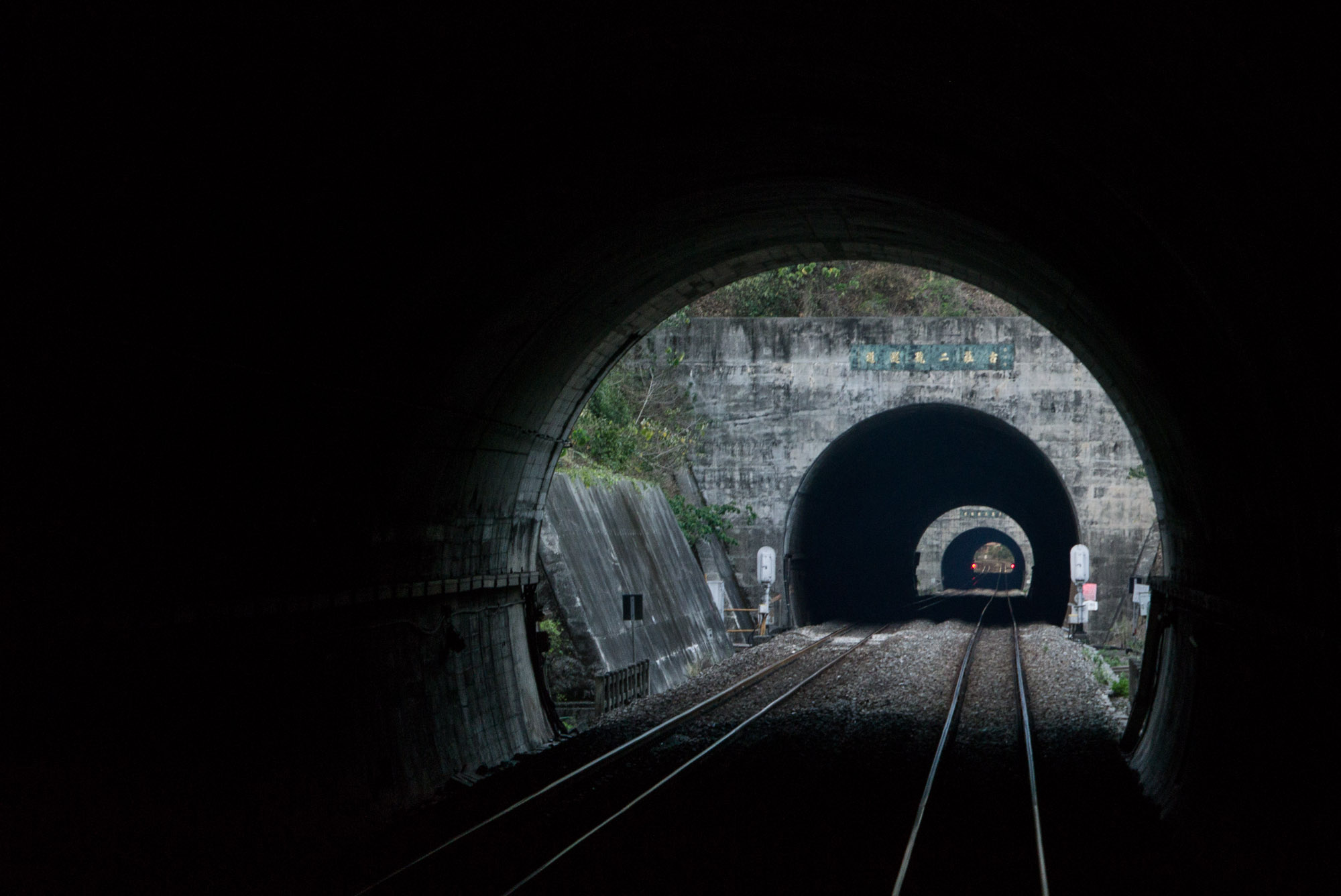 Crossing tunnel one after another Pingtung to Taitung on the South-Link Line.